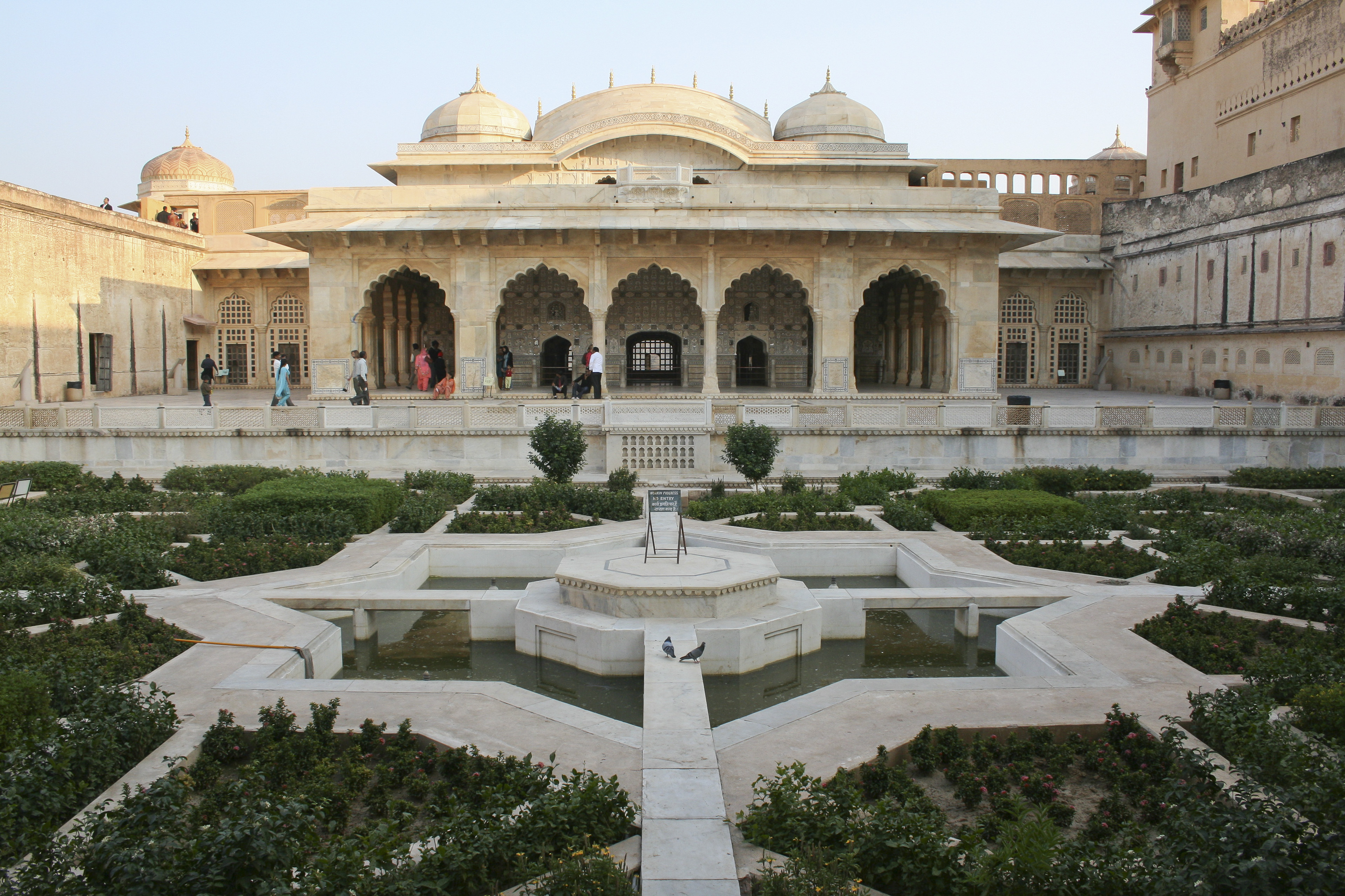 Amber Fort, Jaipur, India